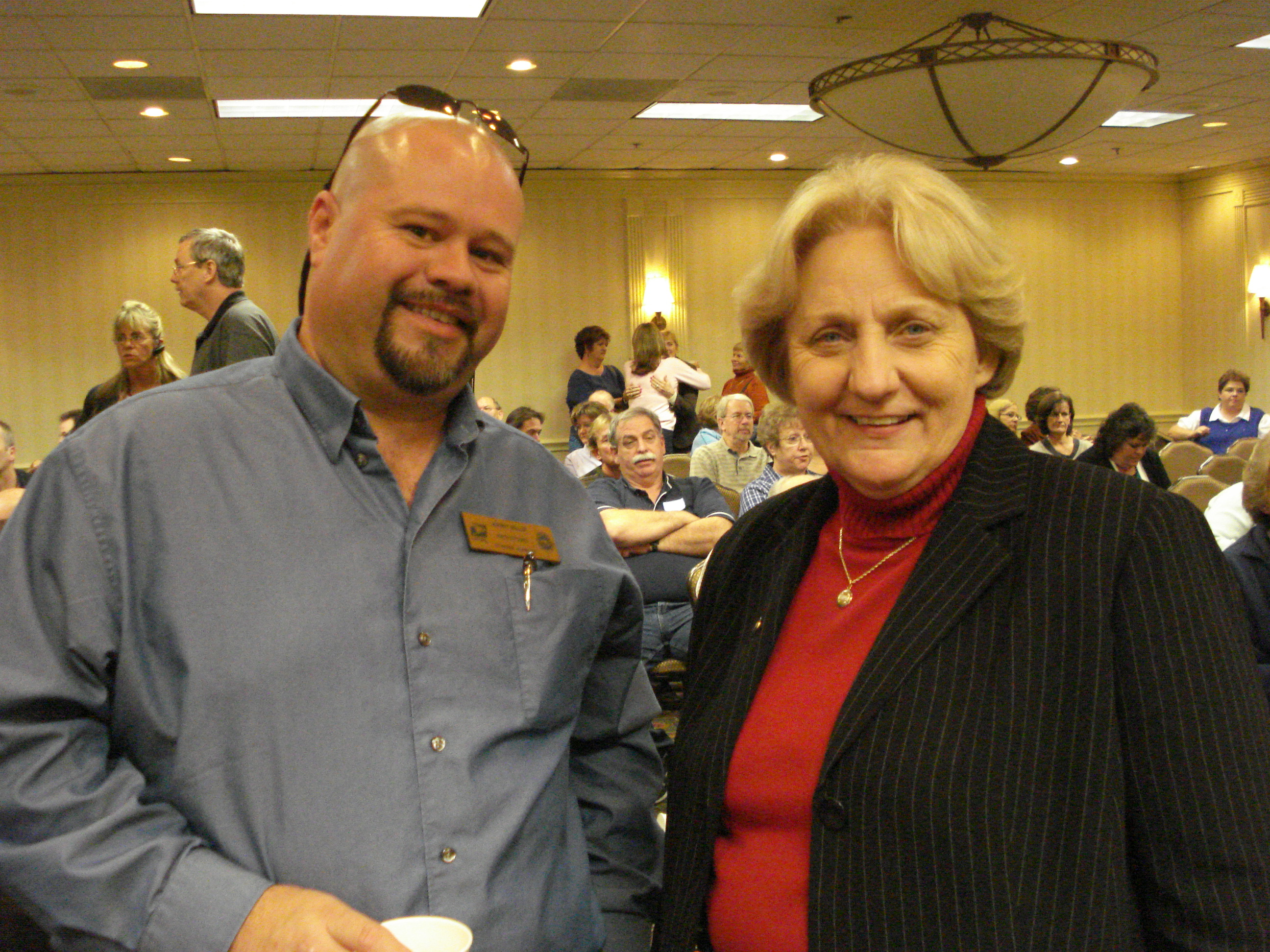 Johnny Miller and Jeanette Dwyer at the SAC conference